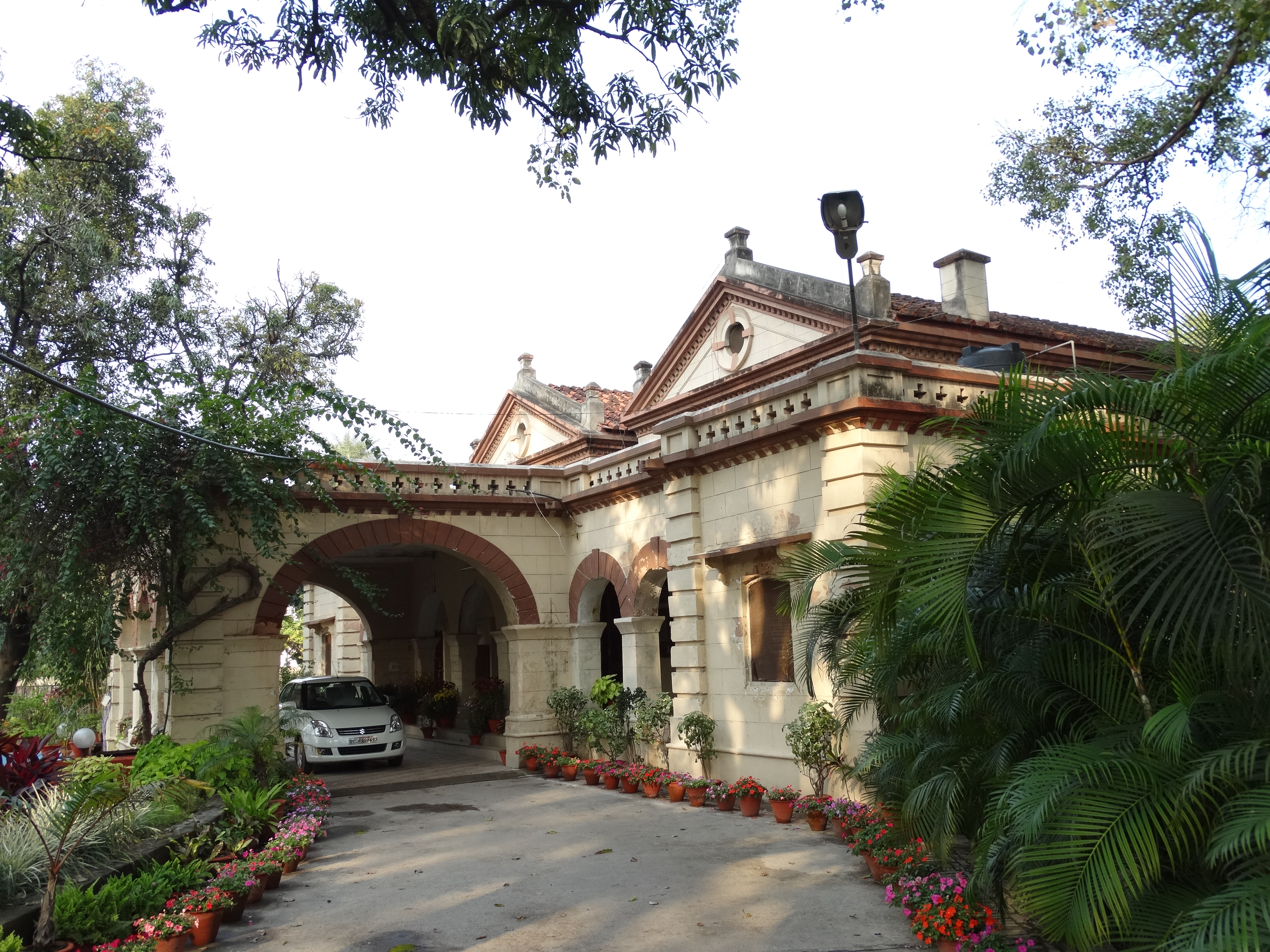 Colonial-Style Bungalow - Hastings Road - Allahabad - Uttar Pradesh - India